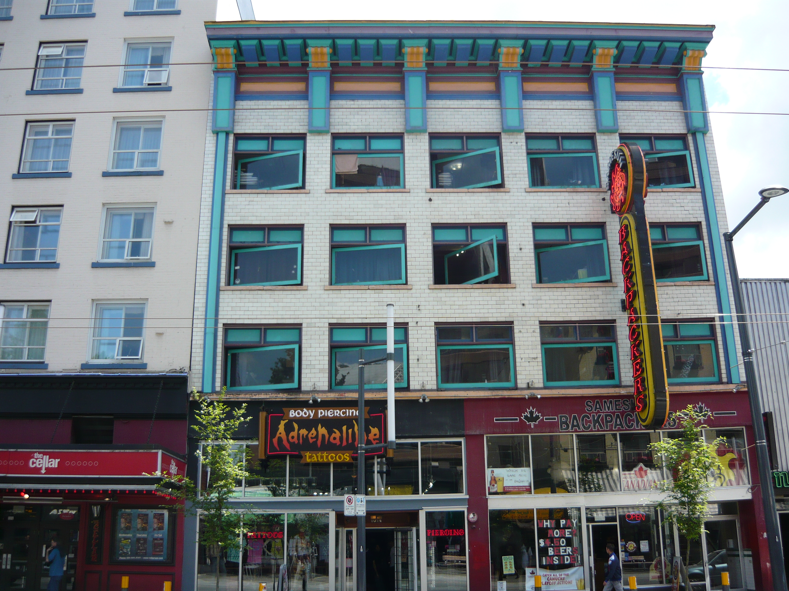 Glenaird Hotel, 1018 Granville Street, Vancouver, British Columbia, Canada. Now "Samesun Backpackers Lodge". Built circa 1910. Architects: Parr and Fee.